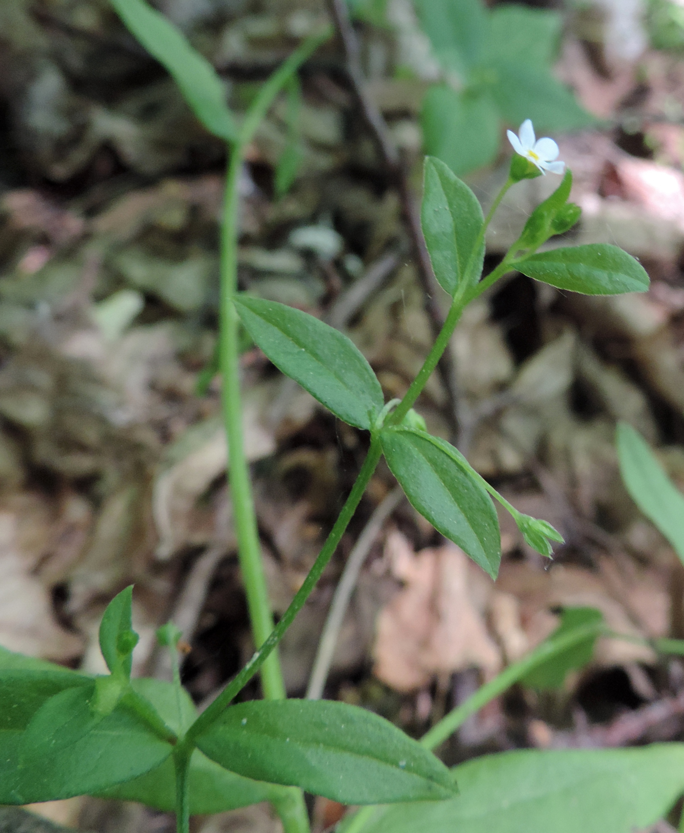 Myosotis sparsiflora, vicinity of Nowa Sol, SW Poland